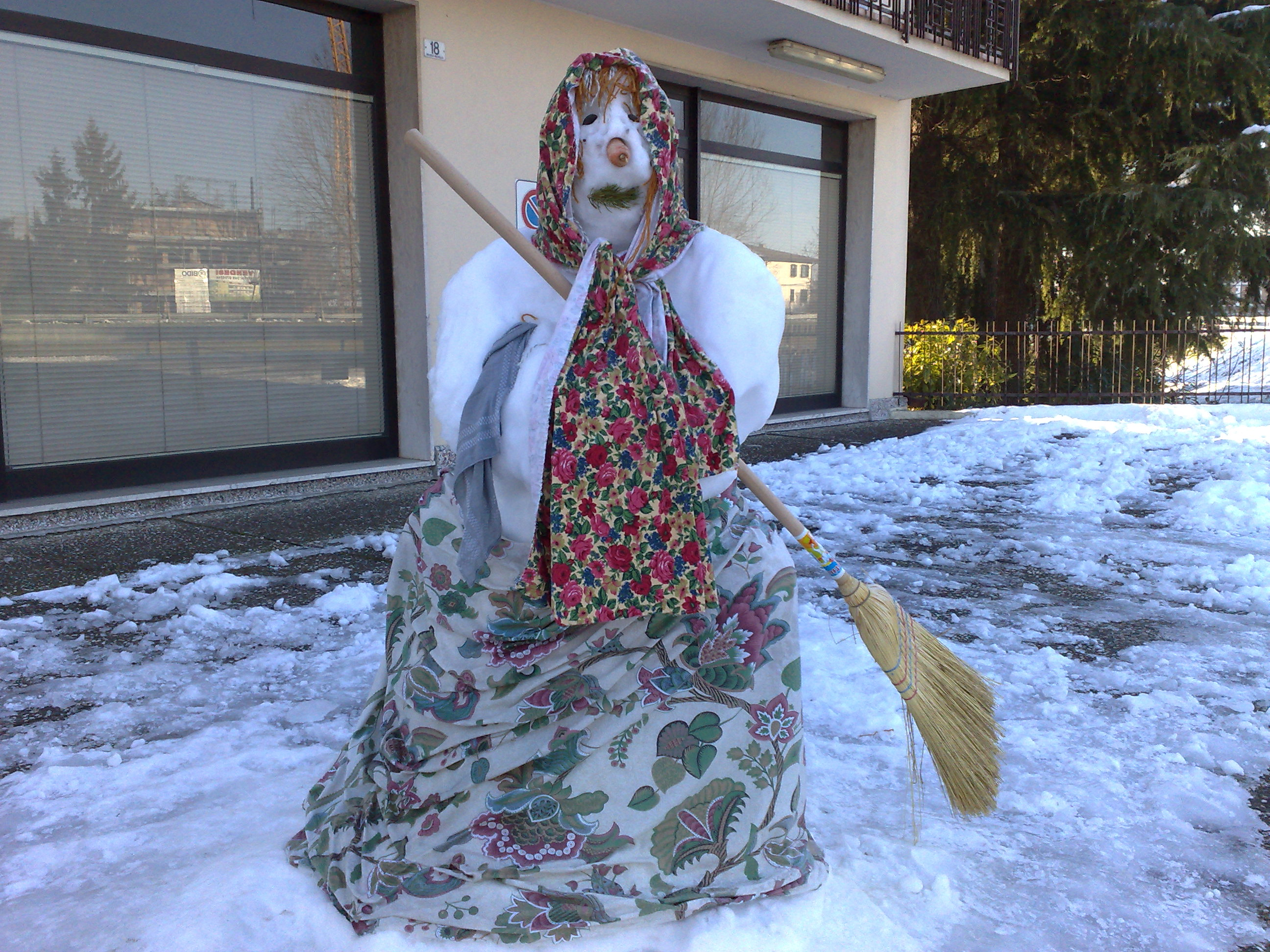 Snowman in Stra